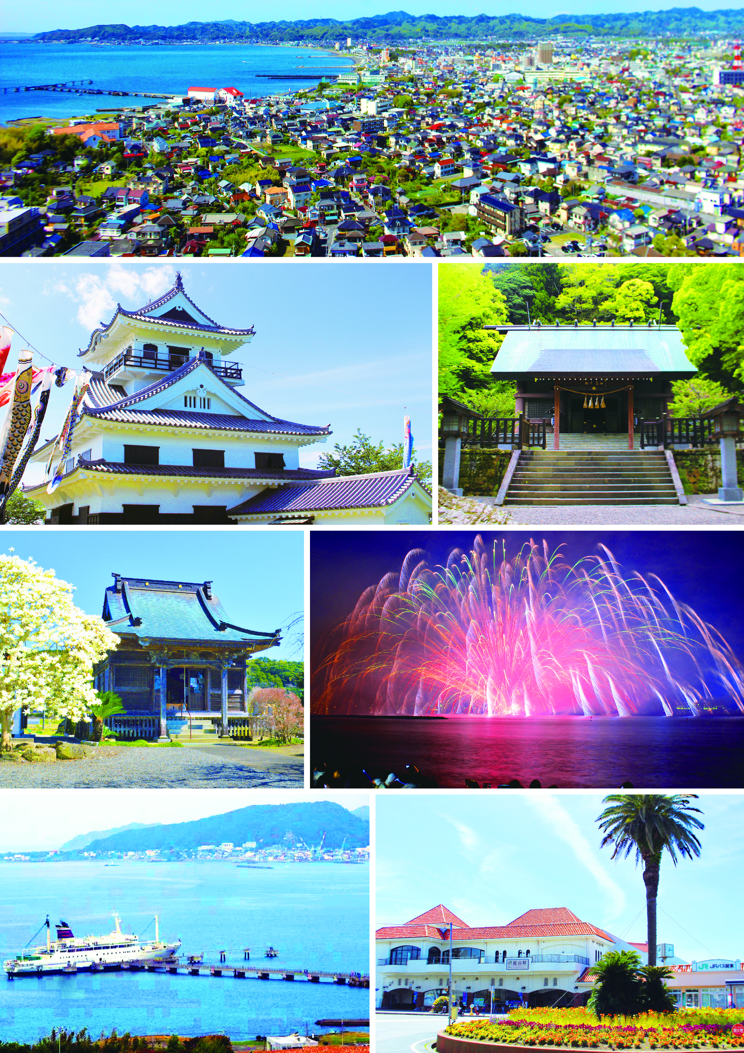 Tateyama montage.jpg